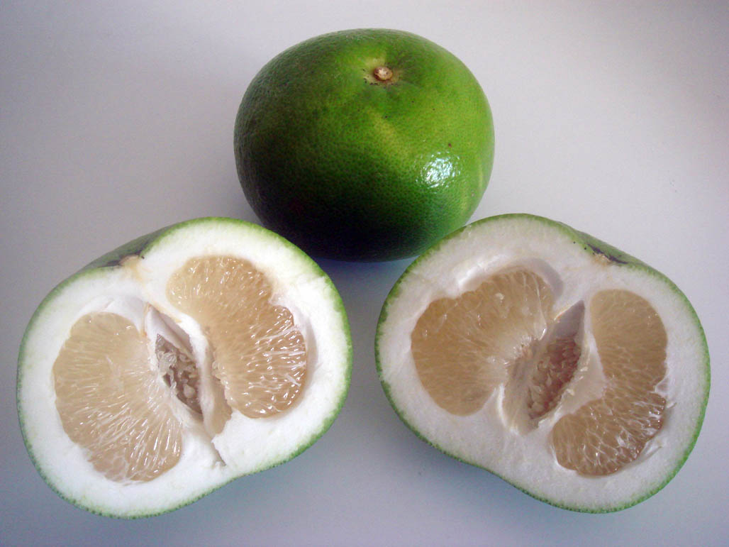 A Sweetie (a cross between a grapefruit and a pomelo) sliced in half plus a whole sweetie, cultivated in Israel .